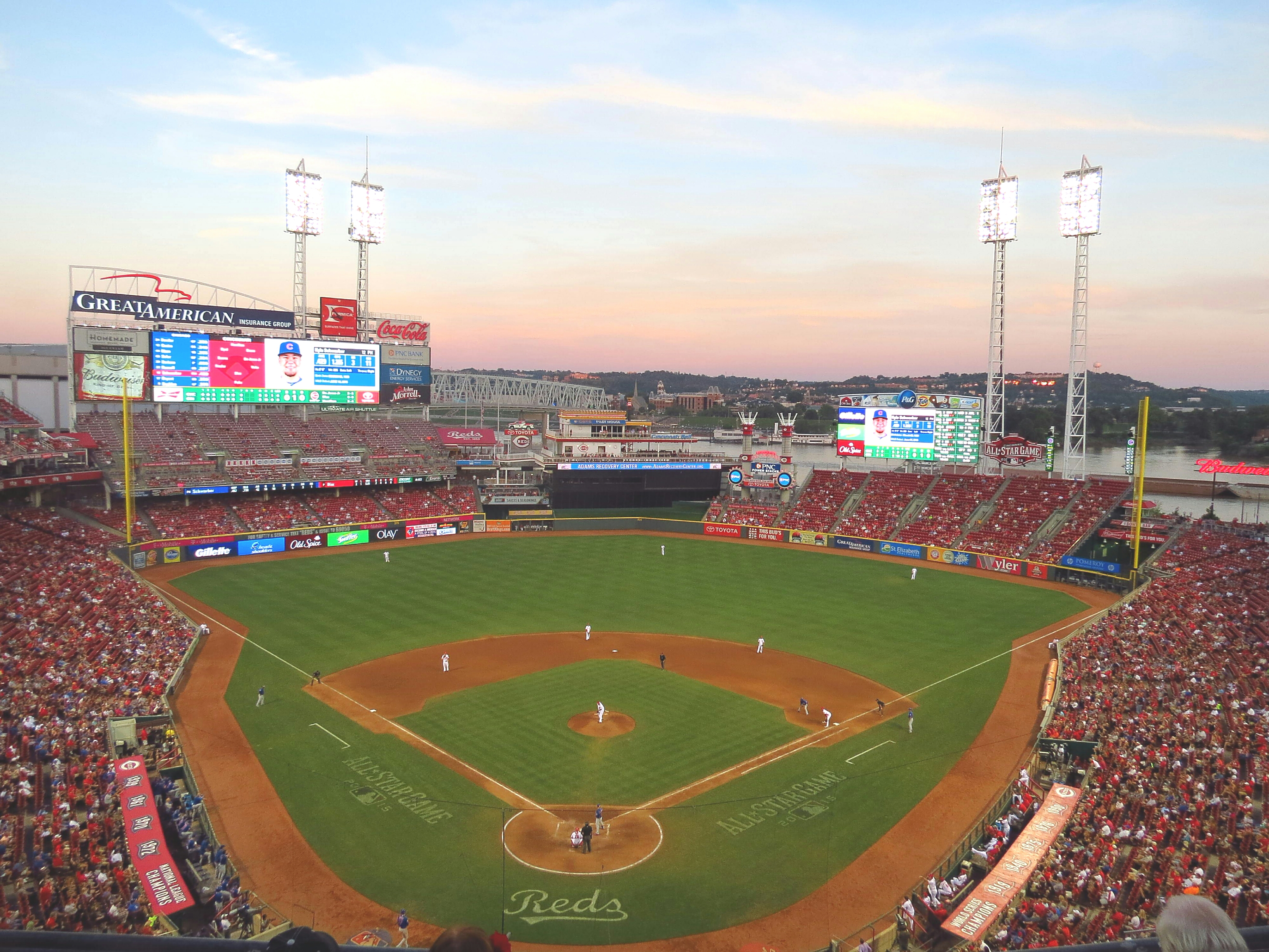 Chicago Cubs at Cincinnati Reds